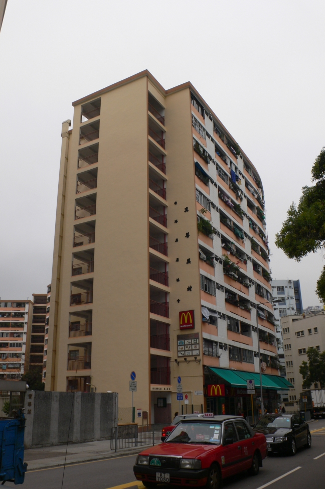 Chi Chuen Lau (Chi Chuen Building) of Chun Seen Mei Cheun (Chun Seen Mei Estate) in Kowloon City, Hong Kong